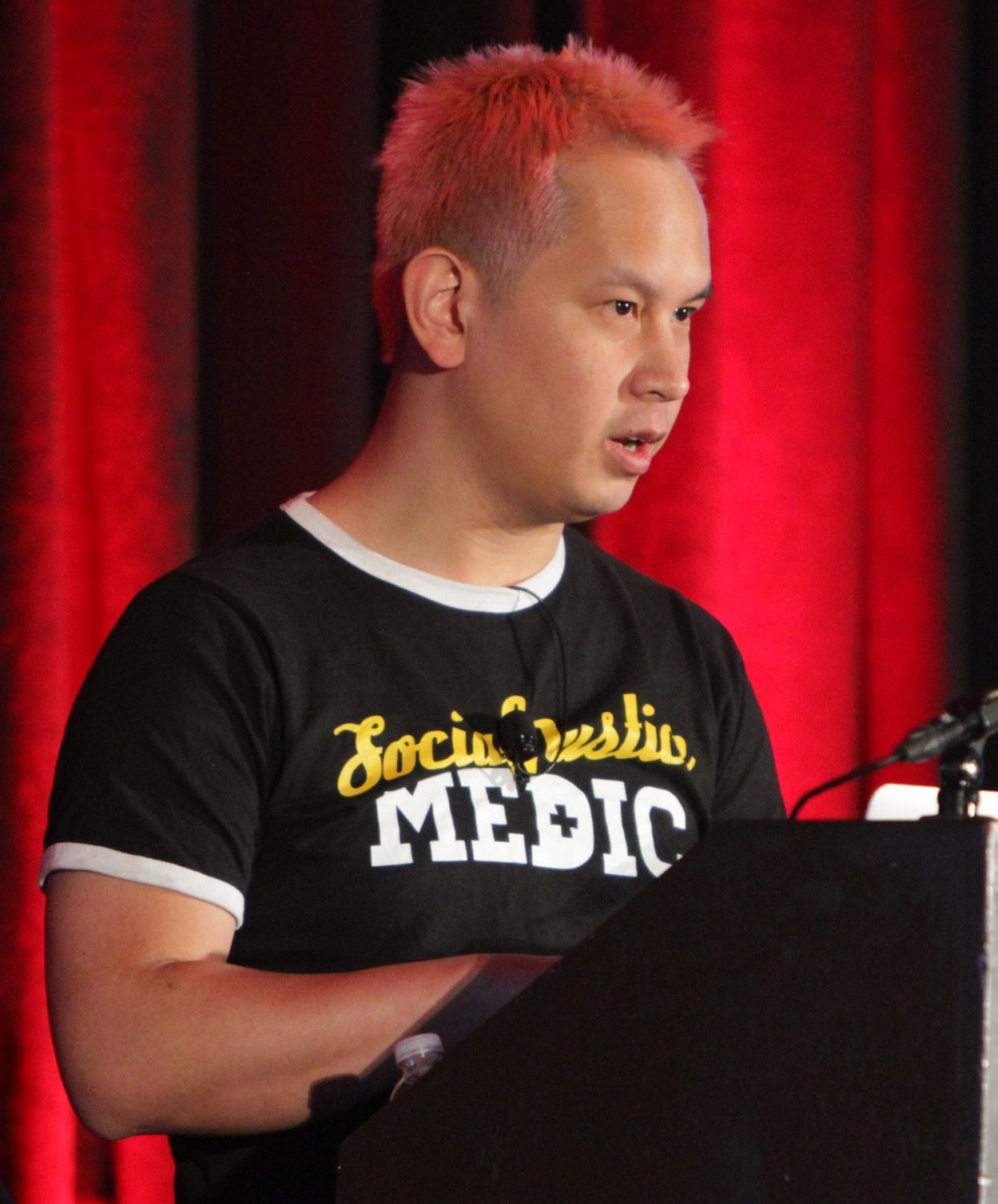 Ken Wong of Ustwo at the Game Developers Conference 2015 →This file has been extracted from another file: Ken Wong - Game Developers Conference 2015.jpg